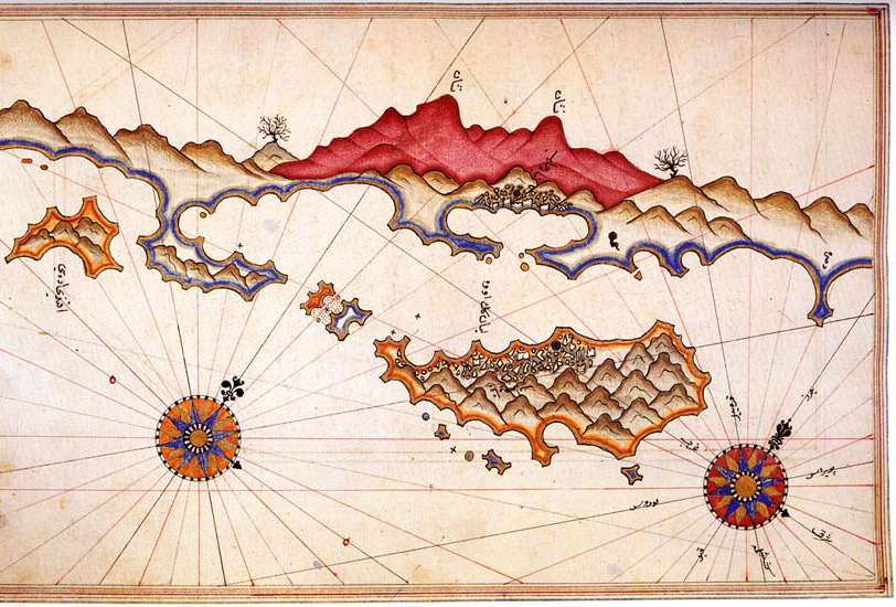 Island of Kekova in Turkey on the Kitab-ı Bahriye (Book of Navigation) of Piri Reis